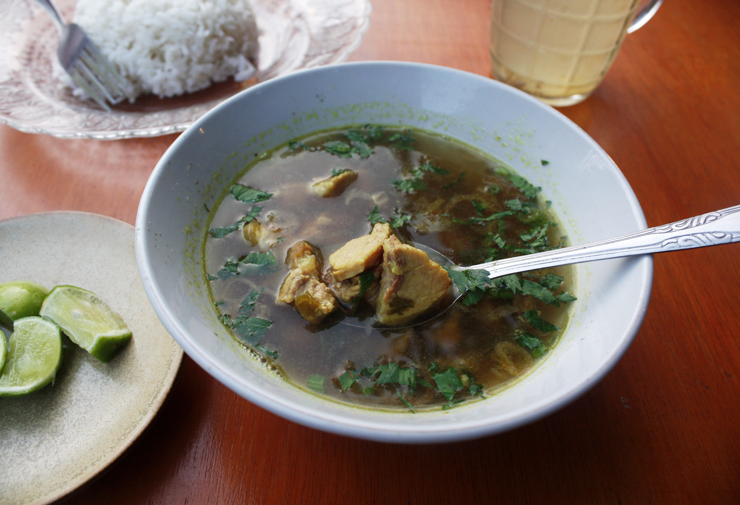 Soto babi Bali, Balinese pork soto, a traditional soup. Served in Kedai Sobi 3 Sekawan, a warung near Pasar Seni Sukawati, Gianyar, Bali, Indonesia.